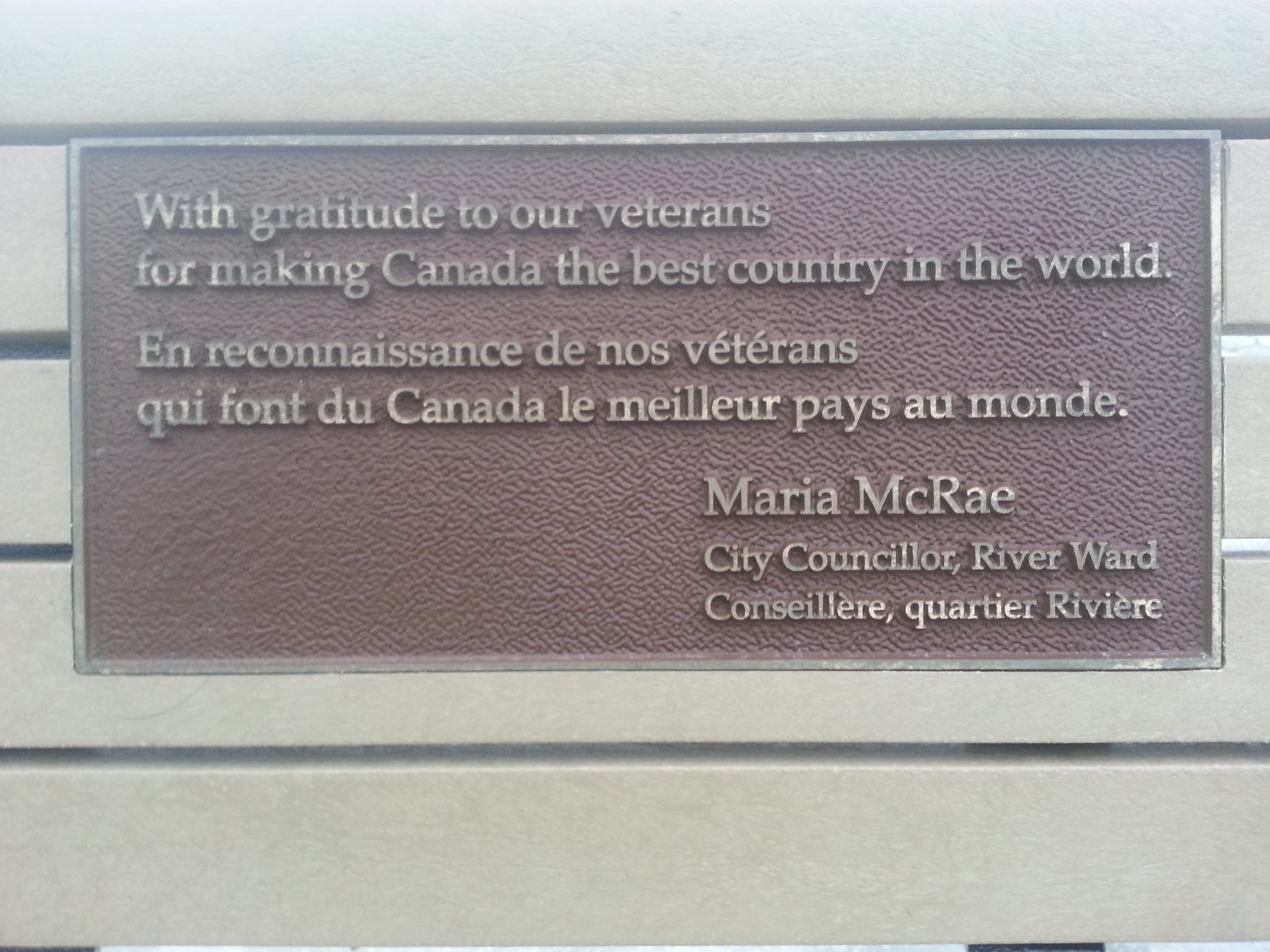 Plaque attached to park benches by Maria McRae